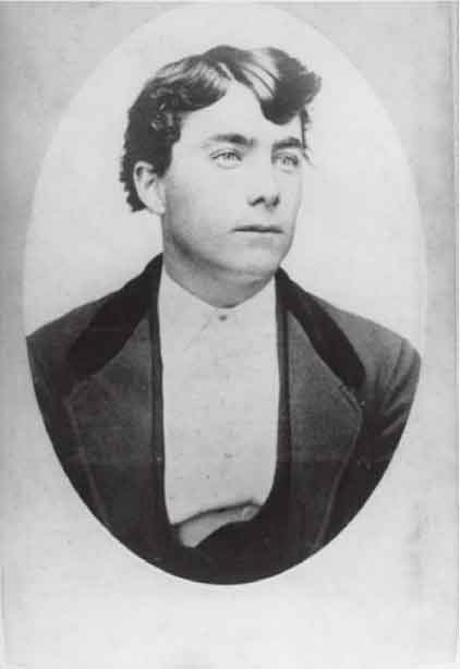 The only known portrait photo of Thomas McLaury of Tombstone.